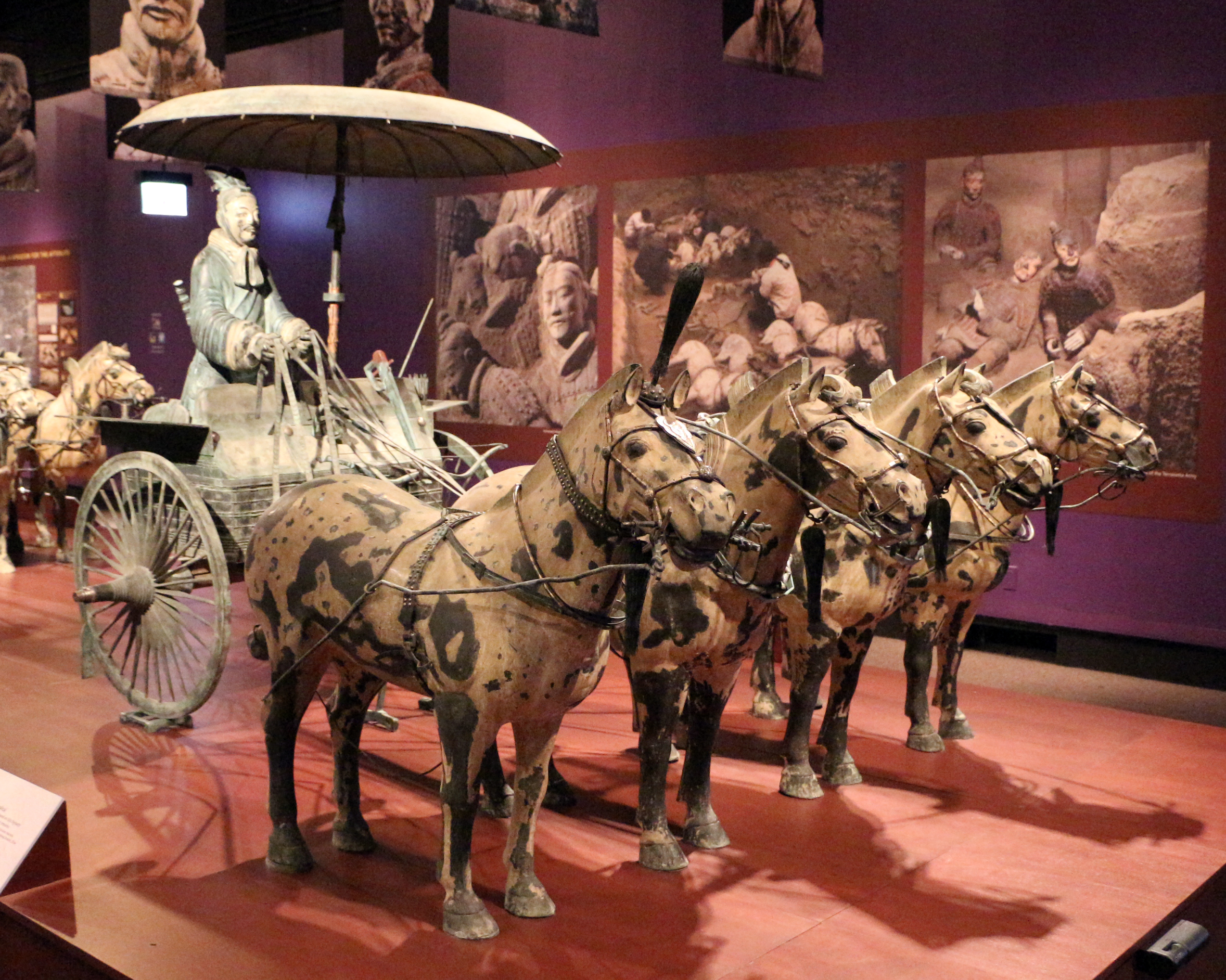 Terracotta Army exhibition in the Field Museum of Natural History (2016)